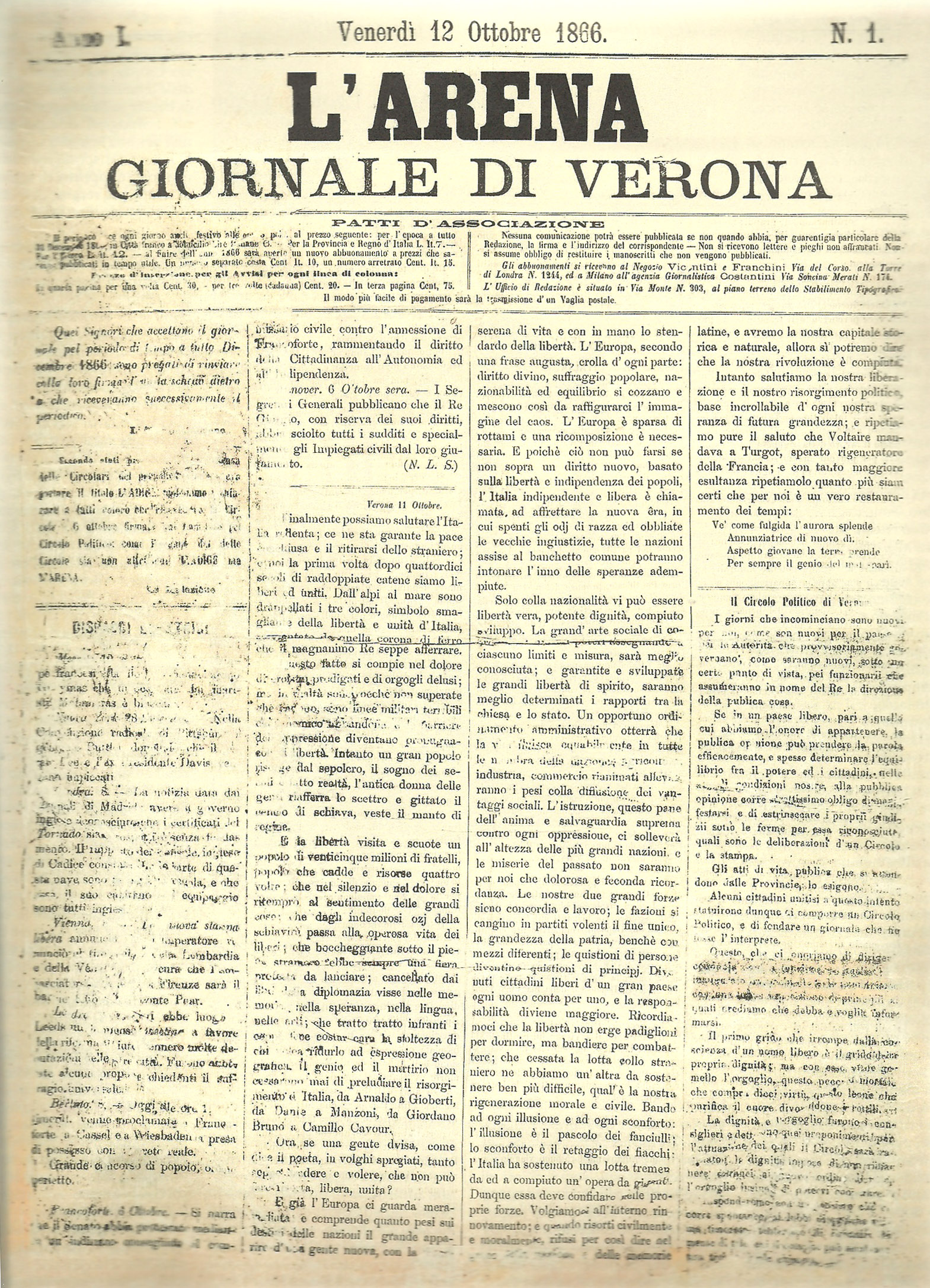 First edition of L'Arena (Verona's newspaper)